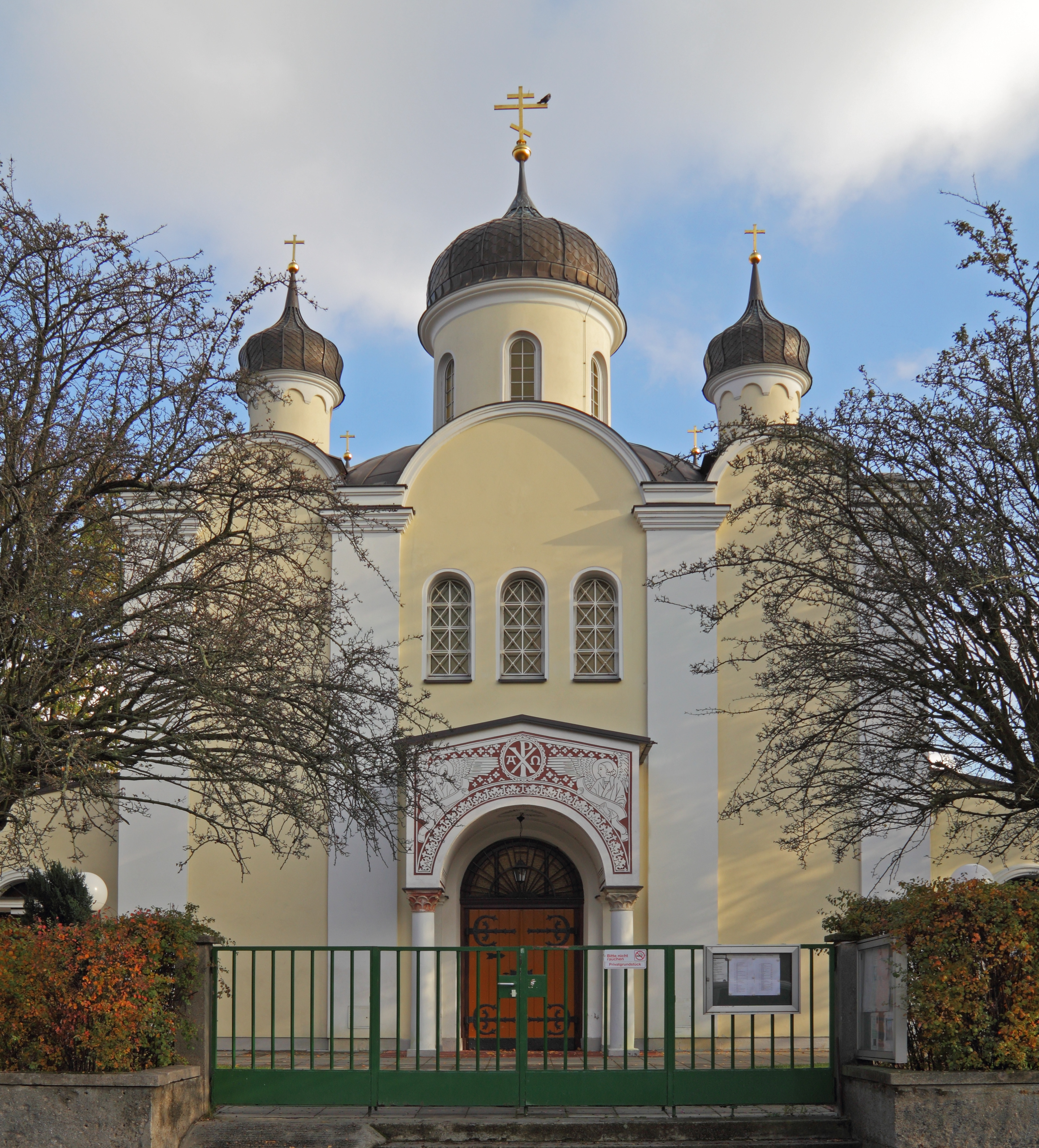 Berlin-Wilmersdorf, Russian orthodox church (Christ Resurrection Church)